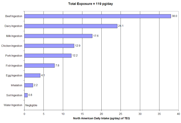 via Chart from EPA Dioxin Reassessment Summary 4/94 - Vol. 1, p. 37 (Figure II-5. Background TEQ exposures for North America by pathway) Created from data obtained from :image:Dioxin_chart.gif